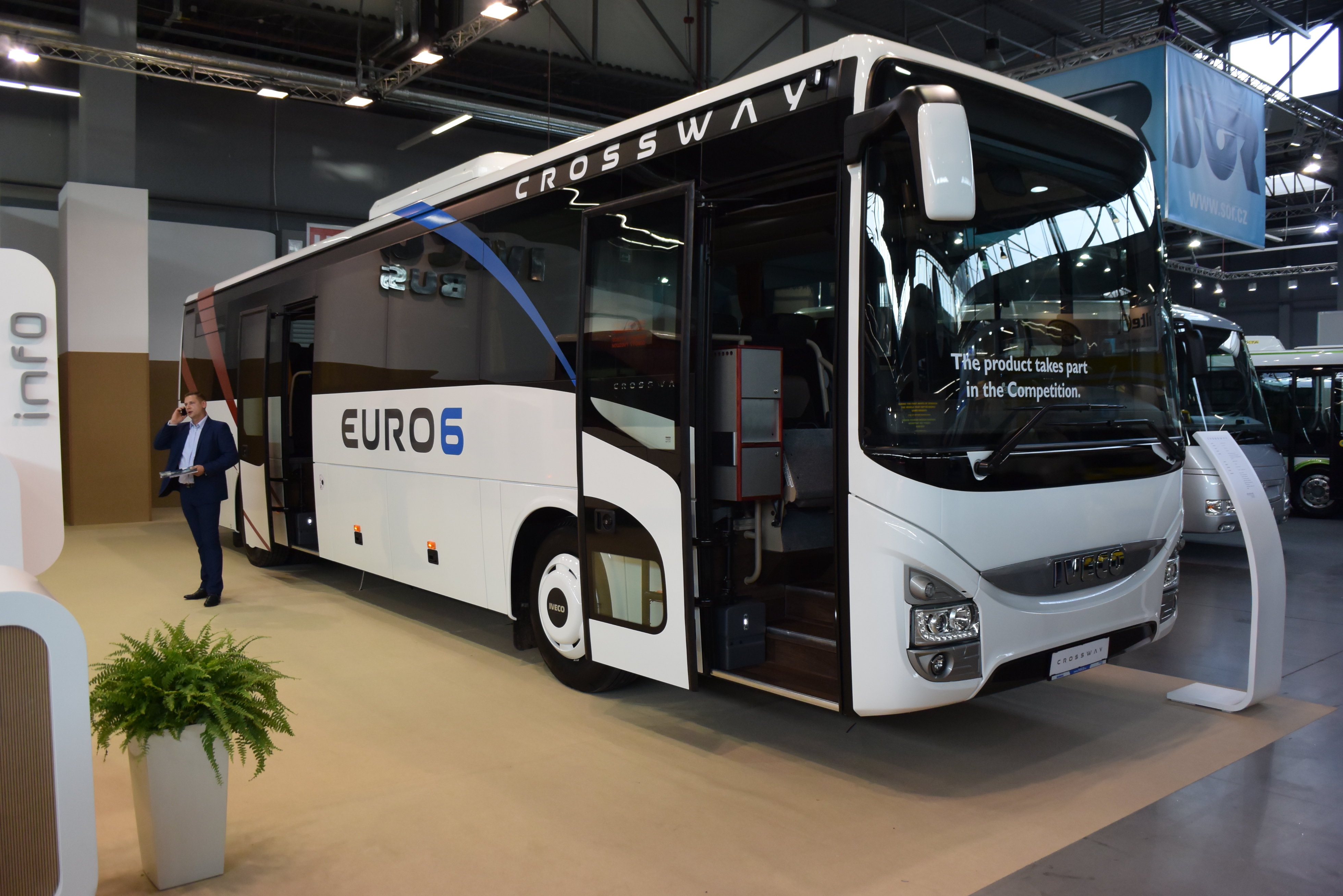 Iveco Crossway, Transexpo 2014, Kielce